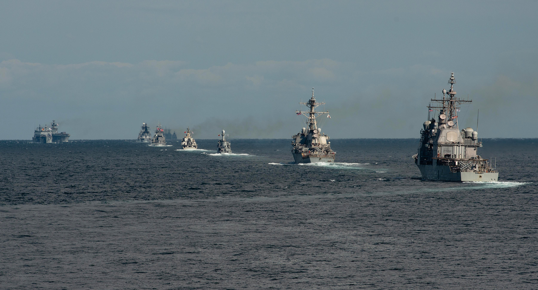 WATERS OFF THE KOREAN PENINSULA (Oct. 11, 2018) - Multinational ships steam in formation during an exercise at the Republic of Korea (ROK) International Fleet Review (IFR) 2018. IFR 2018 is hosted by the Republic of Korea (RoK) Navy to help enhance mutual trust and confidence with navies from around the world. The forward-deployed aircraft carrier USS Ronald Reagan (CVN 76) is forward-deployed to the U.S. 7th Fleet area of operations in support of security and stability in the Indo-Pacific region. (U.S. Navy photo by Mass Communication Specialist 2nd Class Storm Henry) virin = 181011-N-DK042-0154